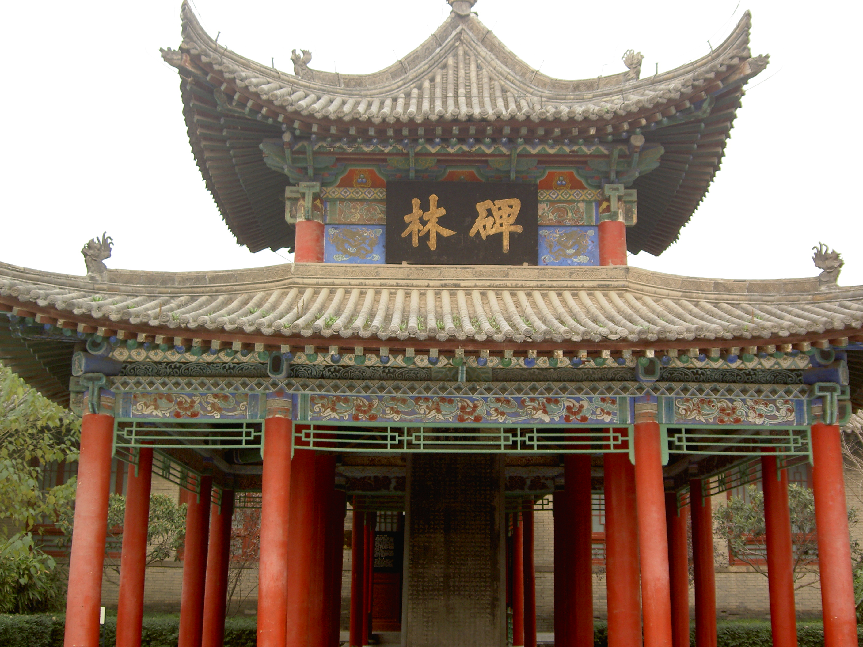 Pavilion at the Stele Forest in Xi'an.